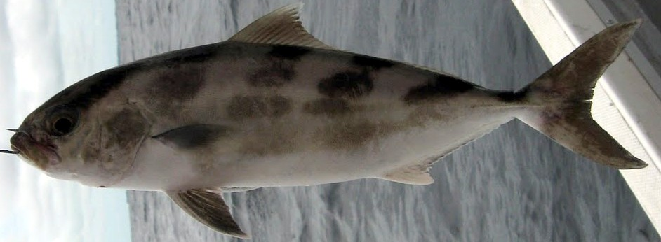 Seriolina nigrofasciata, Bali